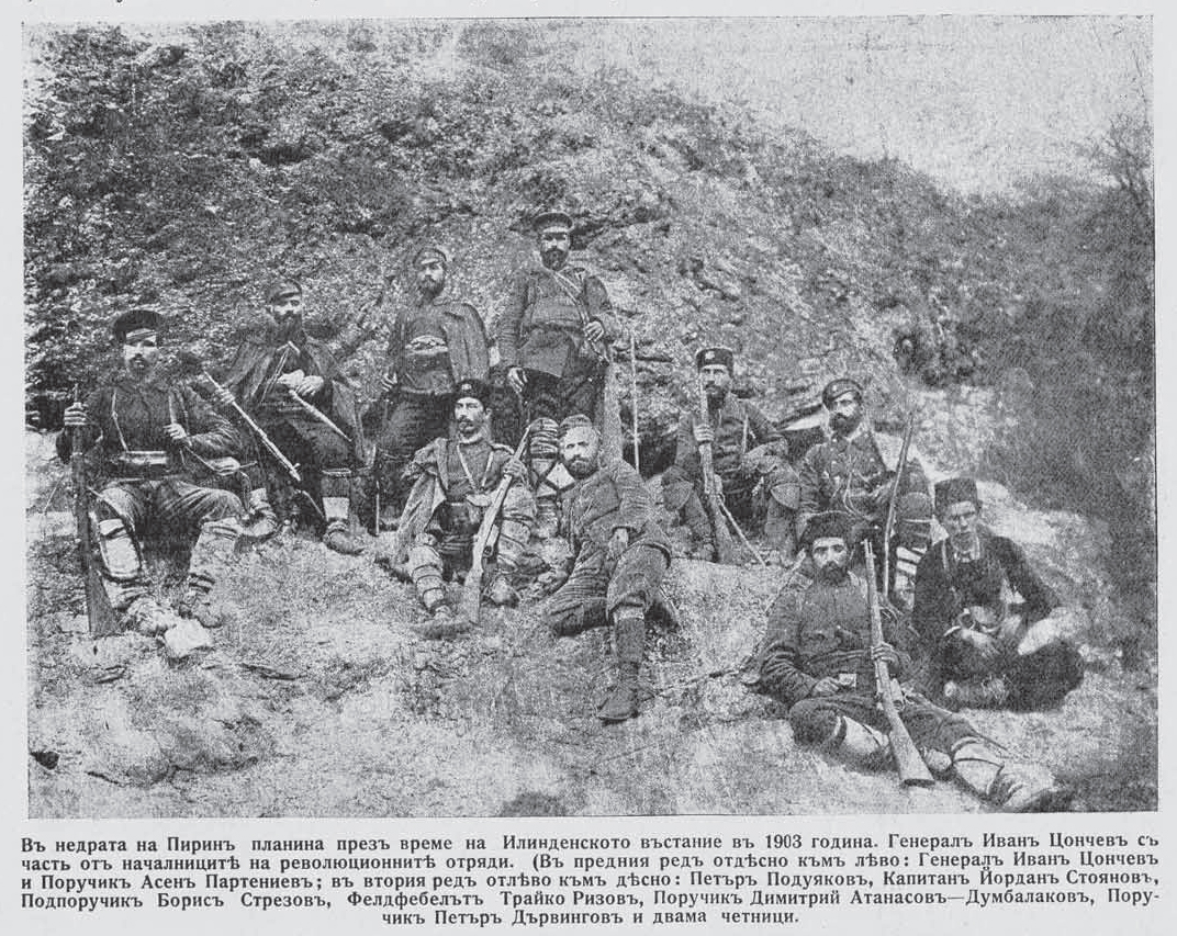 bulgarian revolutionary/ies